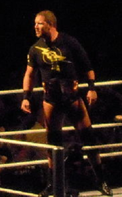 Curtis Axel